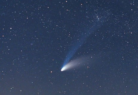 Astronomy For Beginners A blog to indulge two greatest interests - amateur astronomy and the internet. Comet Facts Fact 1: A comet is a conglomerate of particles bound together by ice (not necessarily H2O water ice, it could be dry ice. Fact 2: When a comet approaches the sun the ice melts and releases the particles from the main body in a very long tail that can stretch for millions of miles. Fact 3: The tail of a comet always points away from the sun. The solar wind is responsible for this effect. As the picture below shows, there are in fact two tails, both curved, and they are 30 MILLION kilometres long. That's a lot of fine particles. The theory is that the solar wind is responsible for the blue gas and gravity alone for the larger particles. More interesting cosmological facts will unfold at Astronomy For Beginners